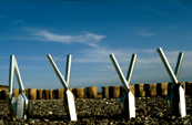 Hans Martin Sewcz Studie Ostseebad Dierhagen 1992 C-Print